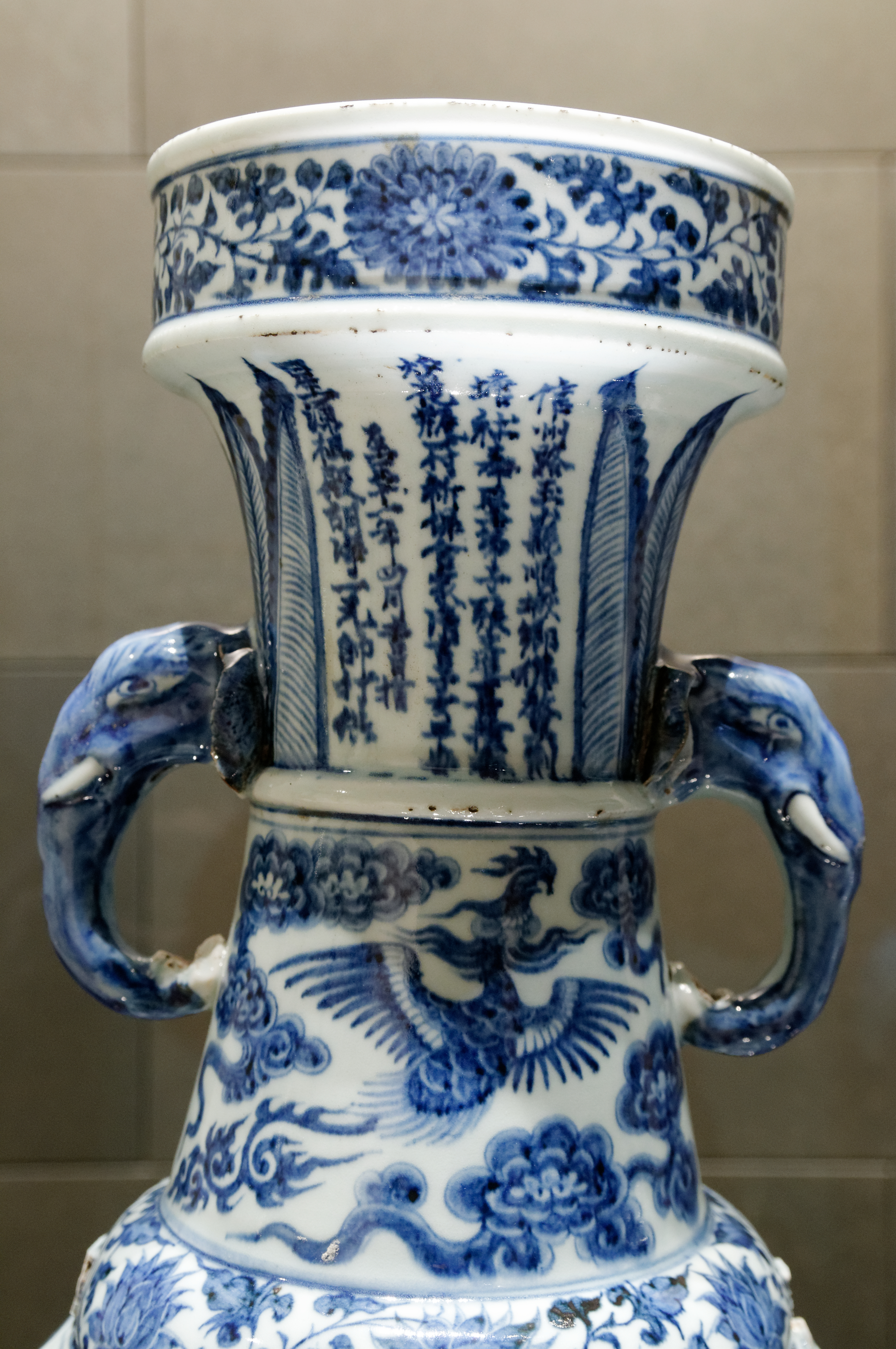 Altar-vase commissioned by one Zheng Wenjin from Yushan county to Daoist temple in Xingyuan.